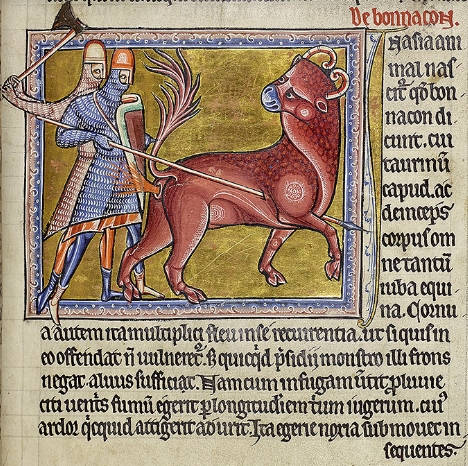 Bonnacon - Aberdeen Bestiary, XIIth century